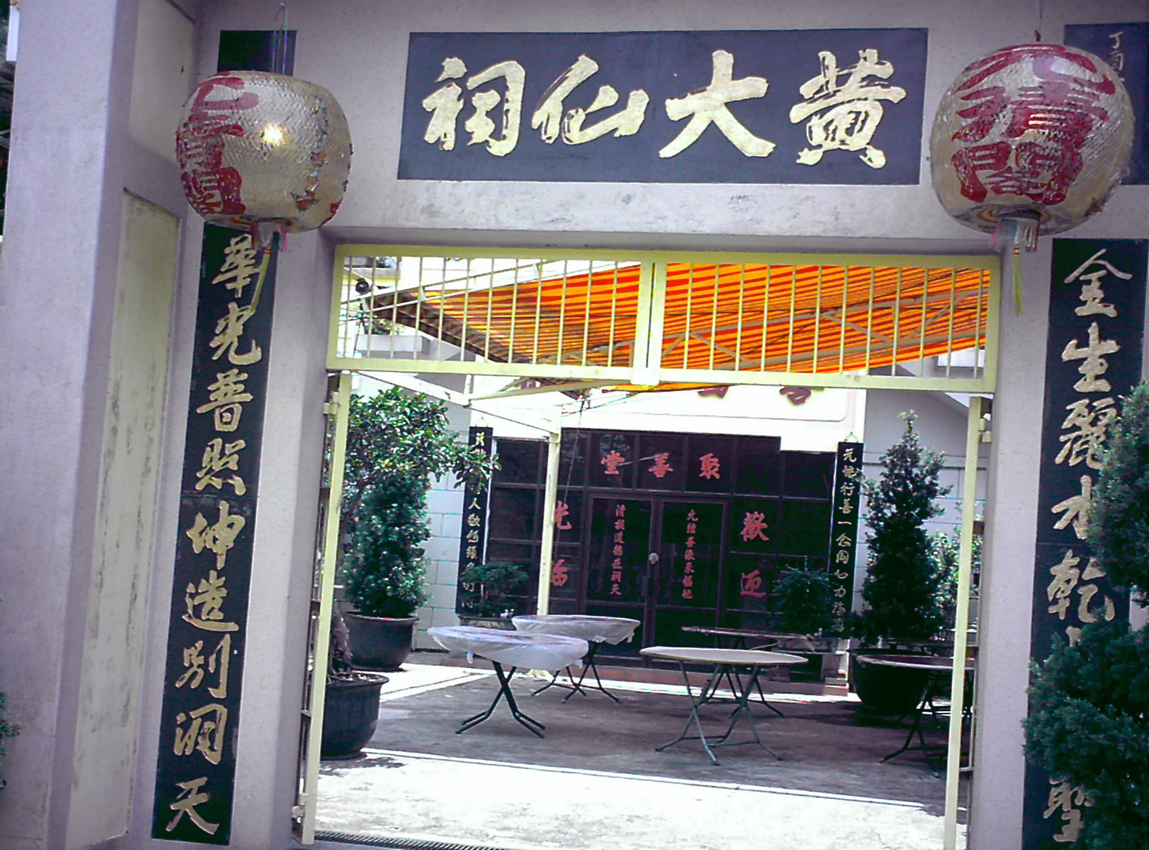 Main Gate of Wong Tai Sin Yuen Ching Kwok, a Taoist Temple in Area 3738 of Ching Chung Road, Kowloon, Hong Kong 中文（香港）: 黃大仙元清閣的大門，位于香港，九龍，龍祥道 3738號地段的道觀。